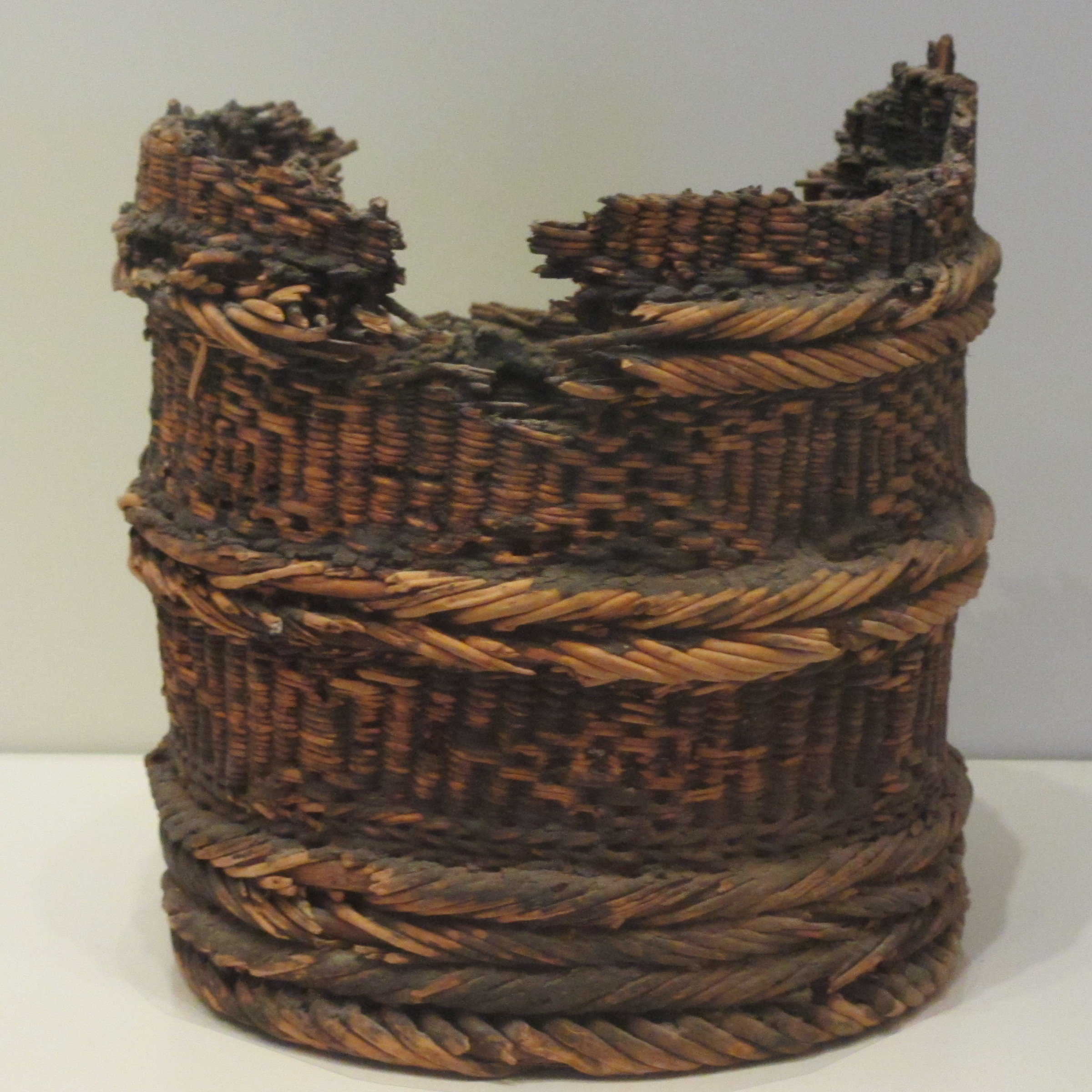 Basket, twigs and asphalt. Cave of the Letters, Nahal Hever (132-135 CE). Israel Museum, Jerusalem